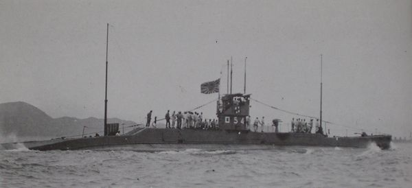 HIJMS Ro-54